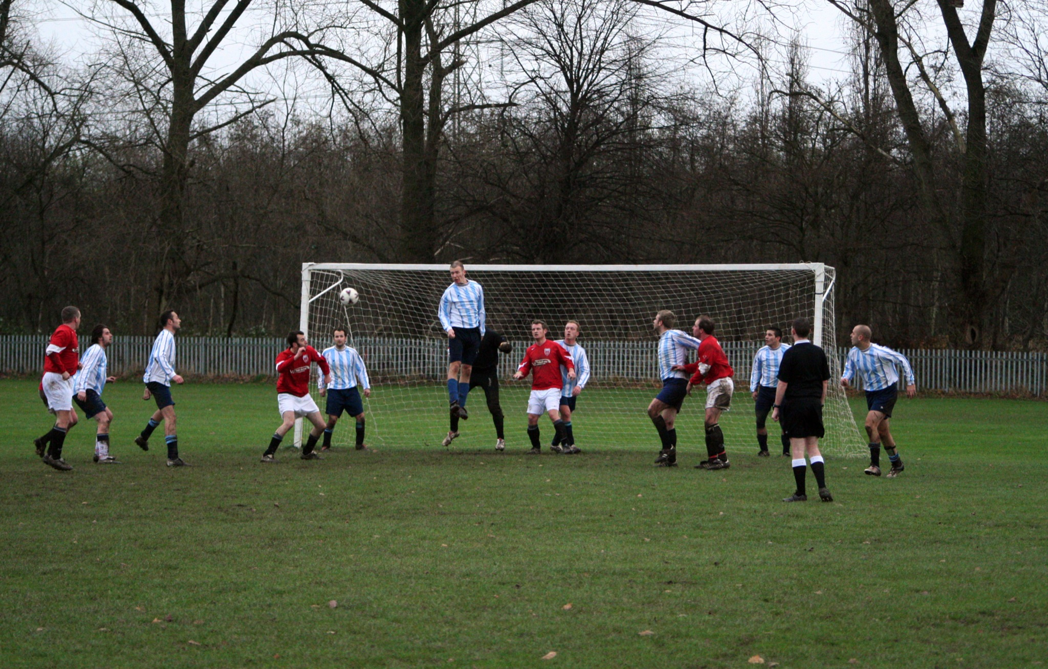 Image of Sunday league football action in Manchester in 2007. Taken from Flickr, original author "el relativista"